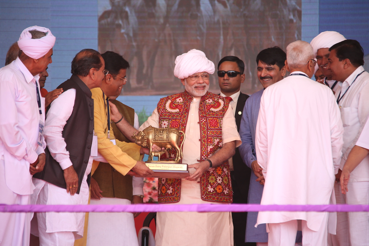 With Prime Minister of India Shri Narendrabhai Modi at Deesa airport on Plan inauguration's event of Banas Dairy.